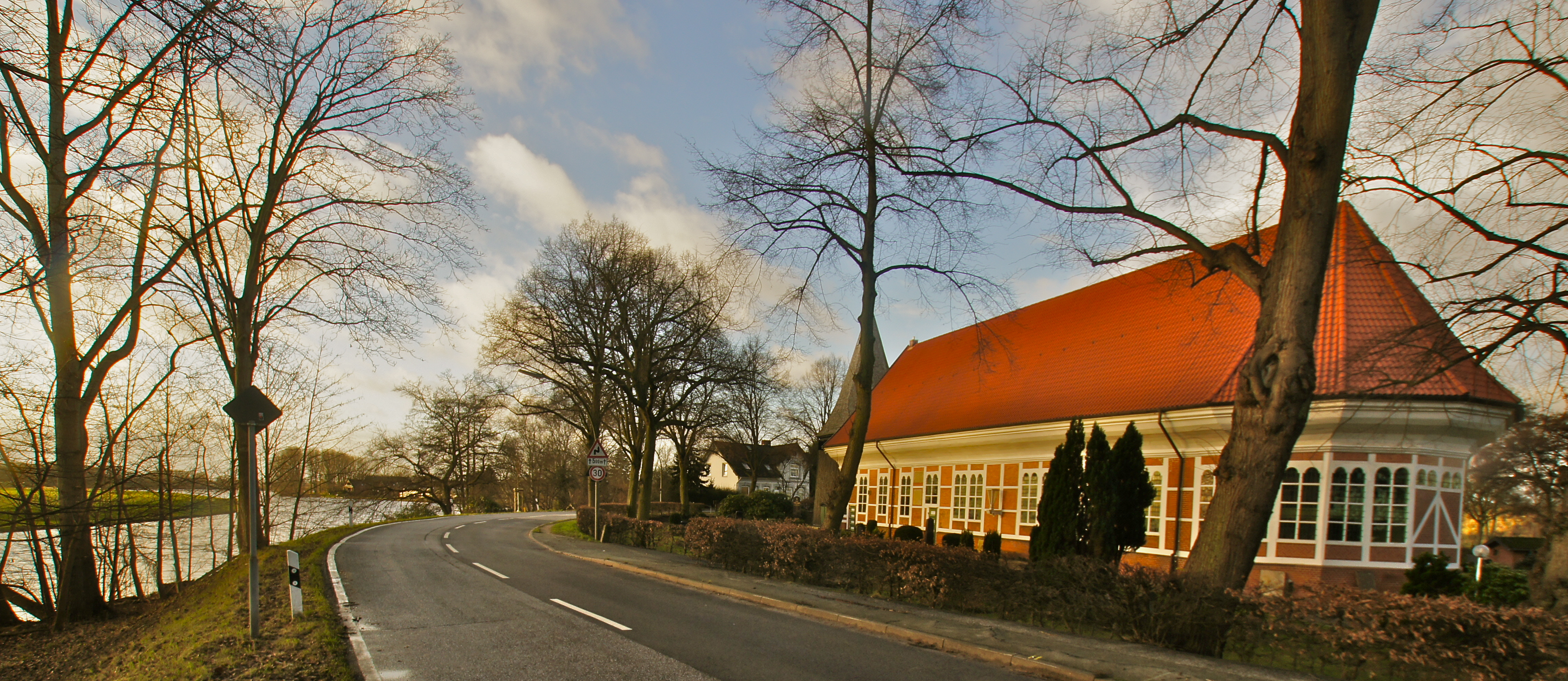 Hamburg (Allermöhe), Germany: The Trinity-Church and the Dove Elbe